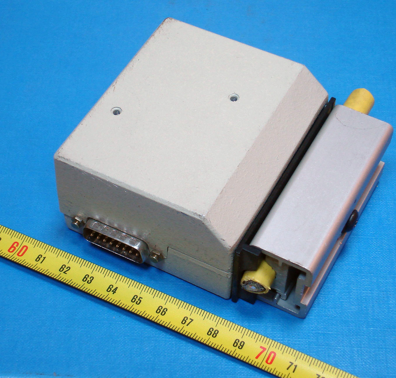 Thicknet / 10BASE-5 ethernet Transceiver / MAU. Scale in cm / mm. Photo taken by me 22:30, 17 November 2005 (UTC)